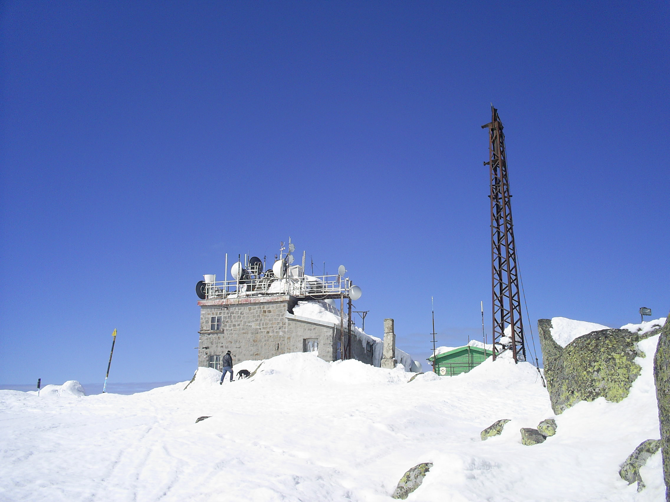 Cherni vruh with the meteorologic station. Vitosha mountain, Bulgaria